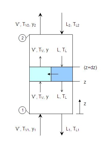 Scheme of a cooling tower.